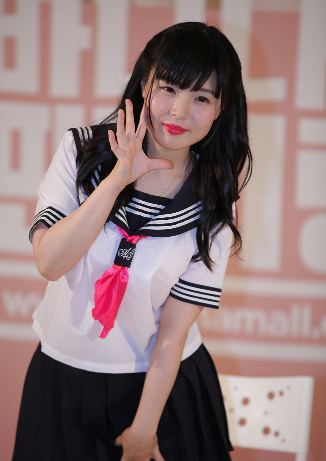 Nagomi